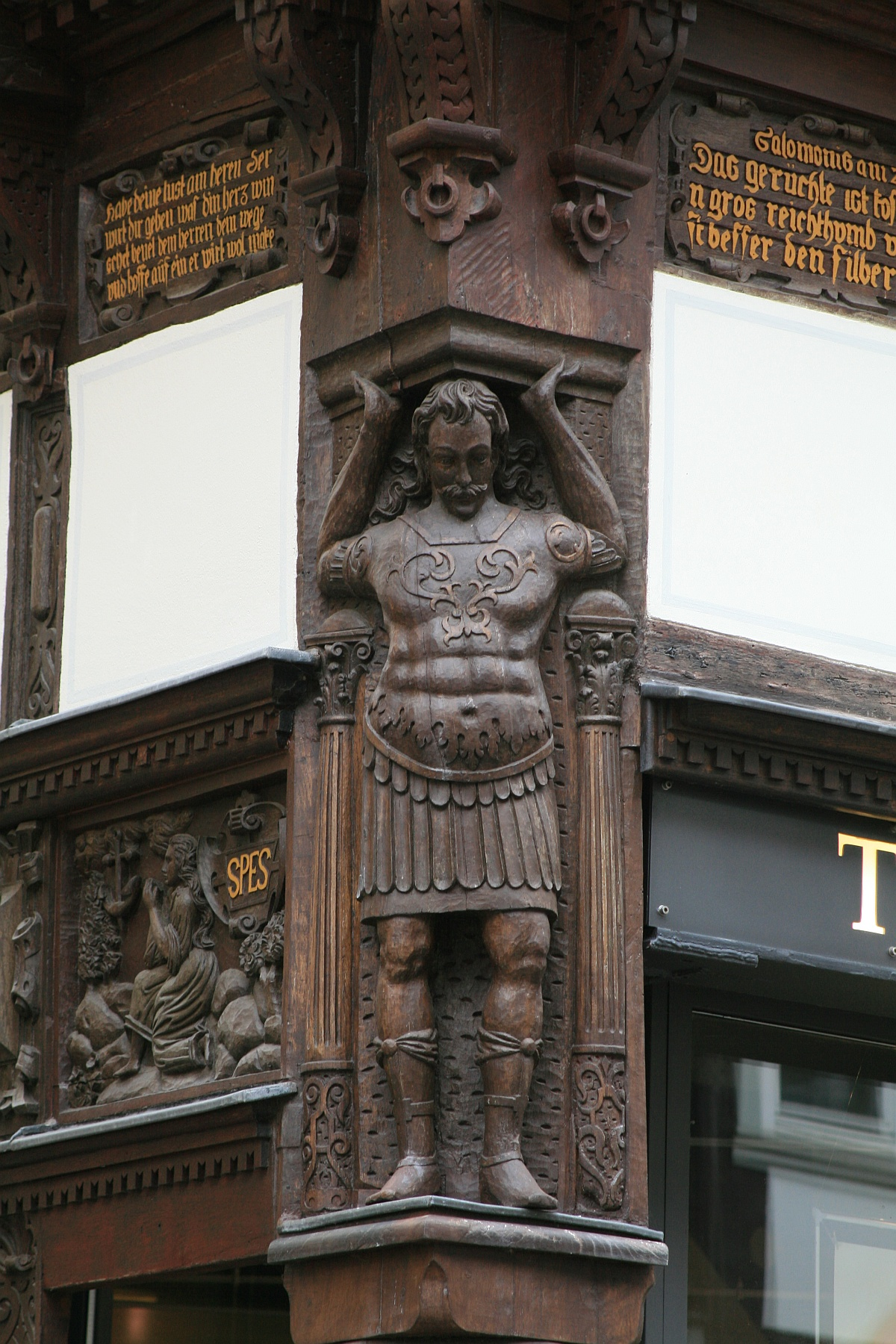 Edge ground floor at Eicke's House (German: Eickesches Haus), in Einbeck, Germany